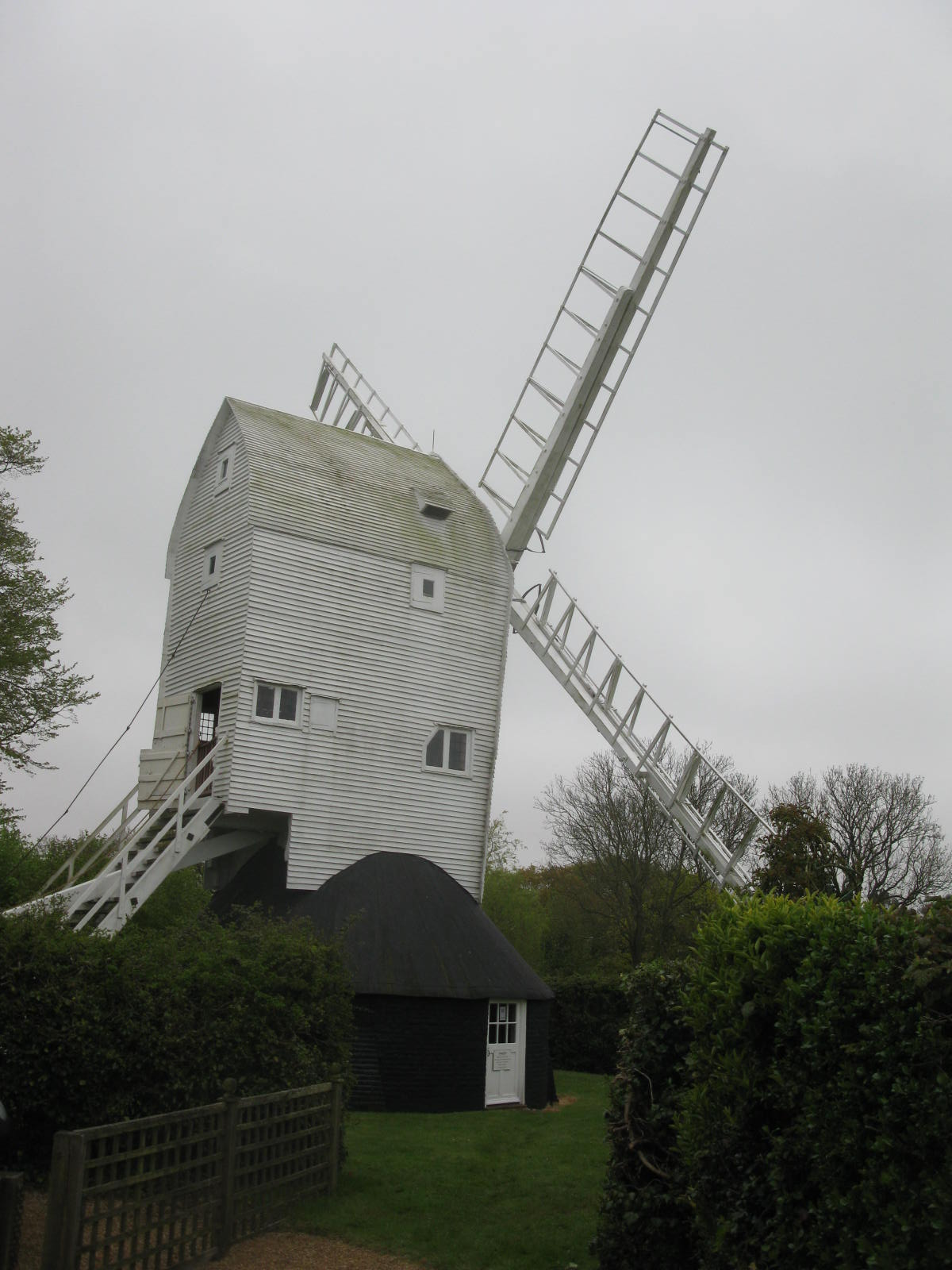 A photograph showing the preserved Stocks Mill, Wittersham.